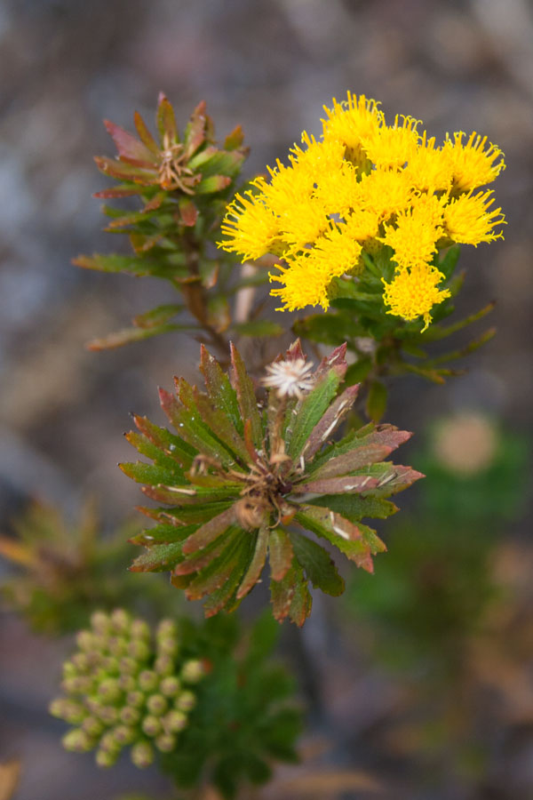 Picture of an allagopappus canariensis with flowers. It´s in Temisas (Gran Canaria, Canary Islands, Spain).